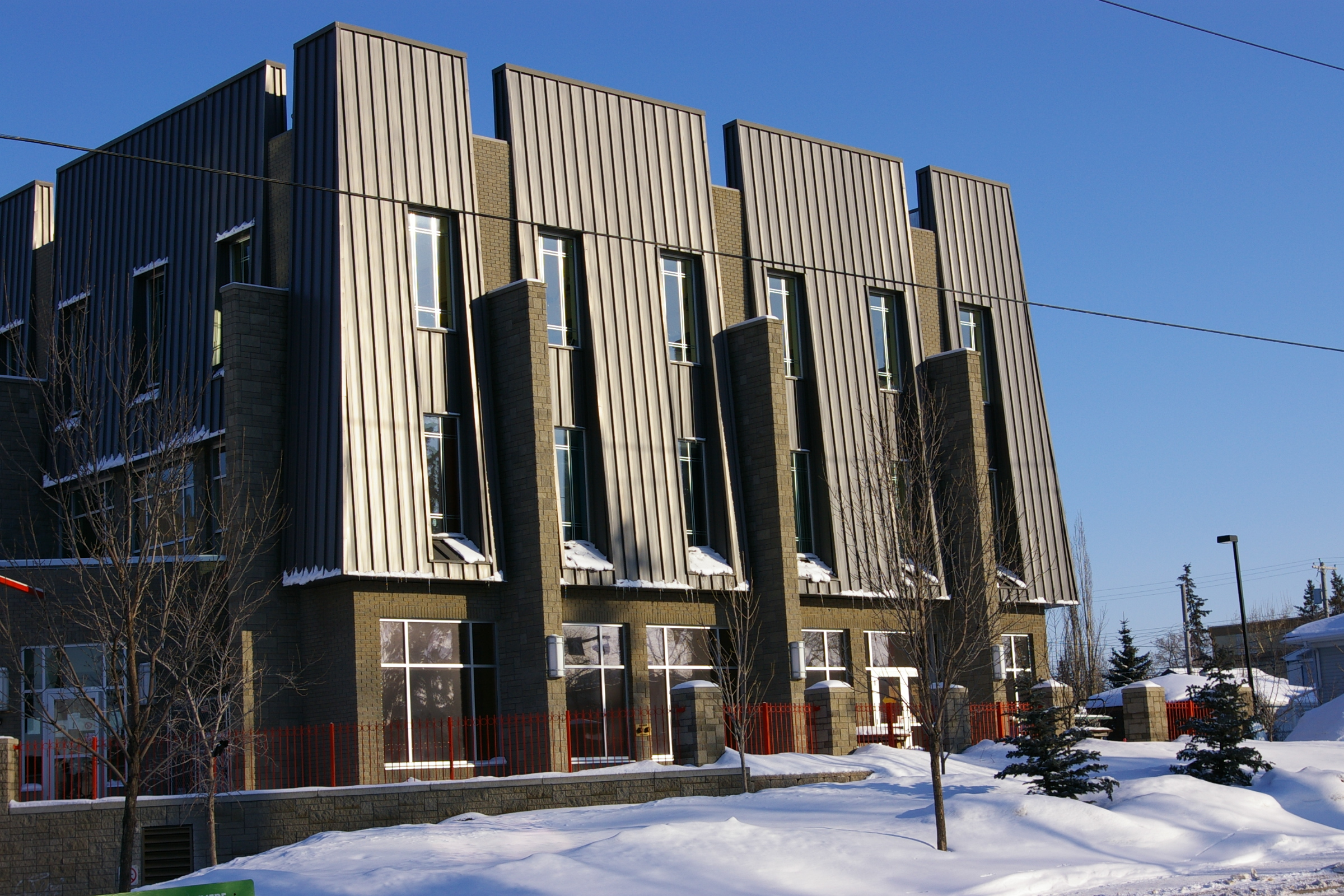 Conseil scolaire Centre-Nord head office.